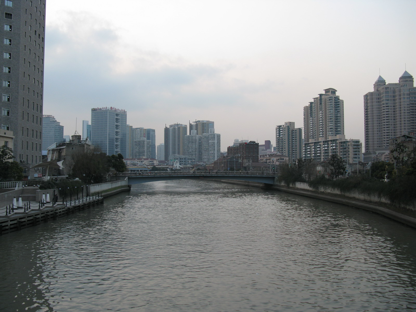 Suzhou Creek, view from Wuzhen Road Bridge